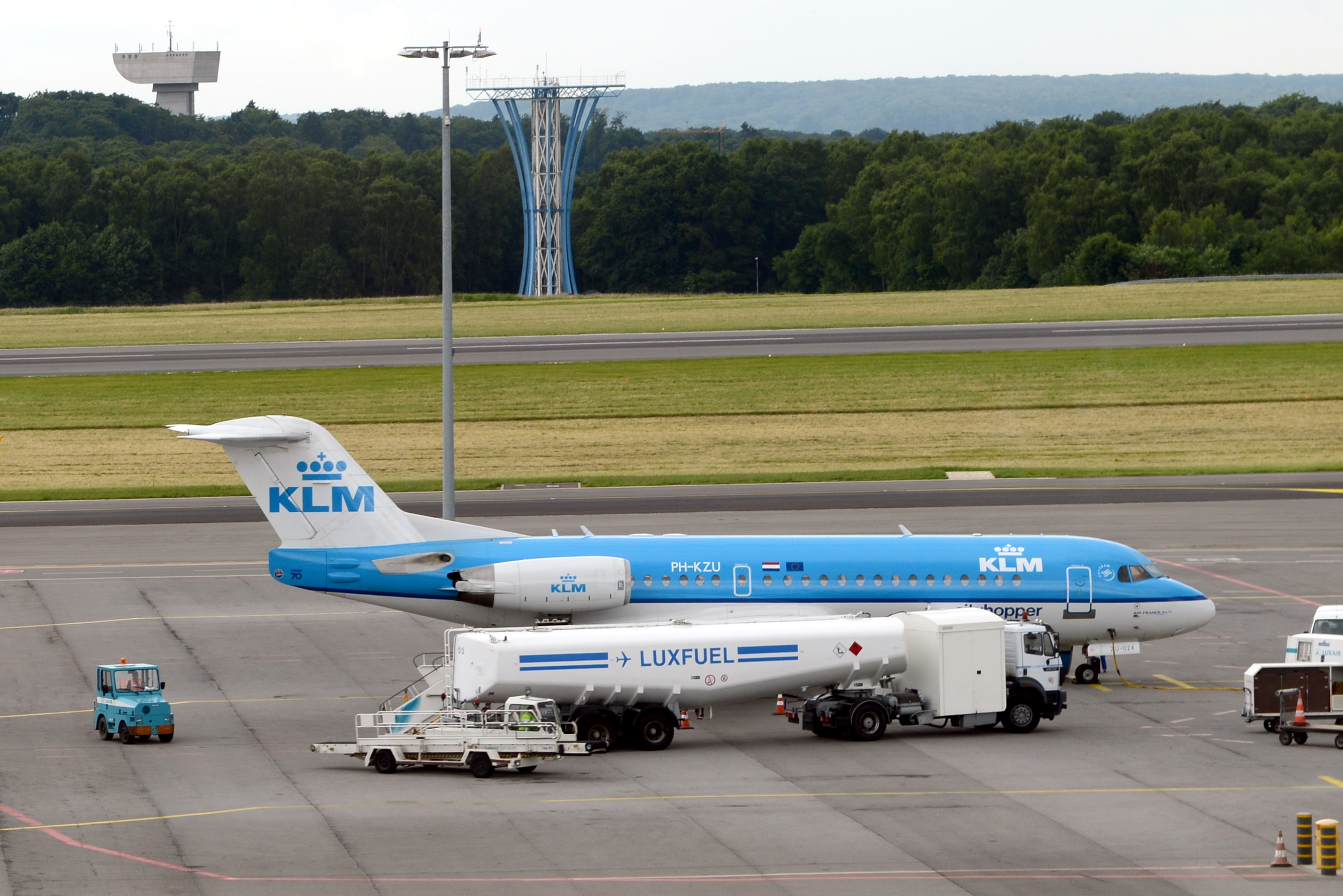 PH-KZU is getting fueled at Luxembourg Findel Airport.